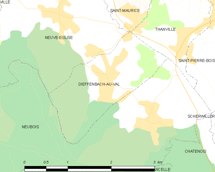 Map of French municipality